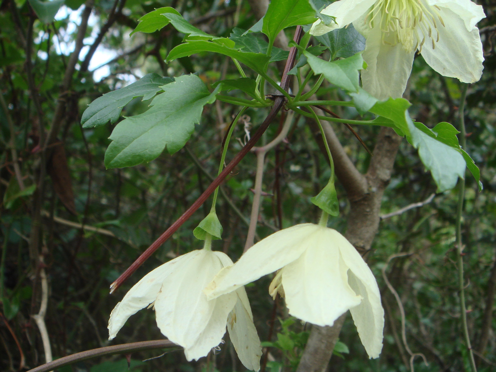 Virgin's bower, Ocuri , Ubrique, Spain